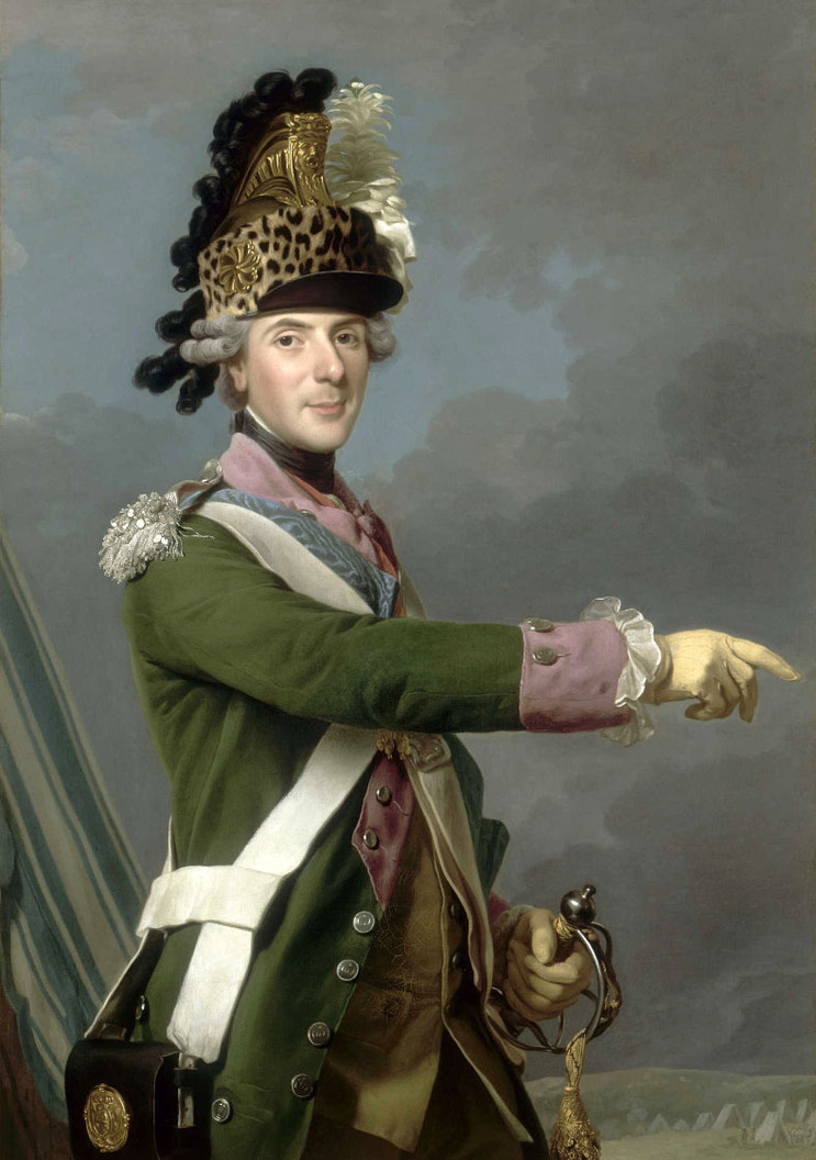 Louis, Dauphin of France (1729–1765), is shown with an emaciated face, in the uniform of Colonel General of the Dragoons, in front of the military camp at Compiègne